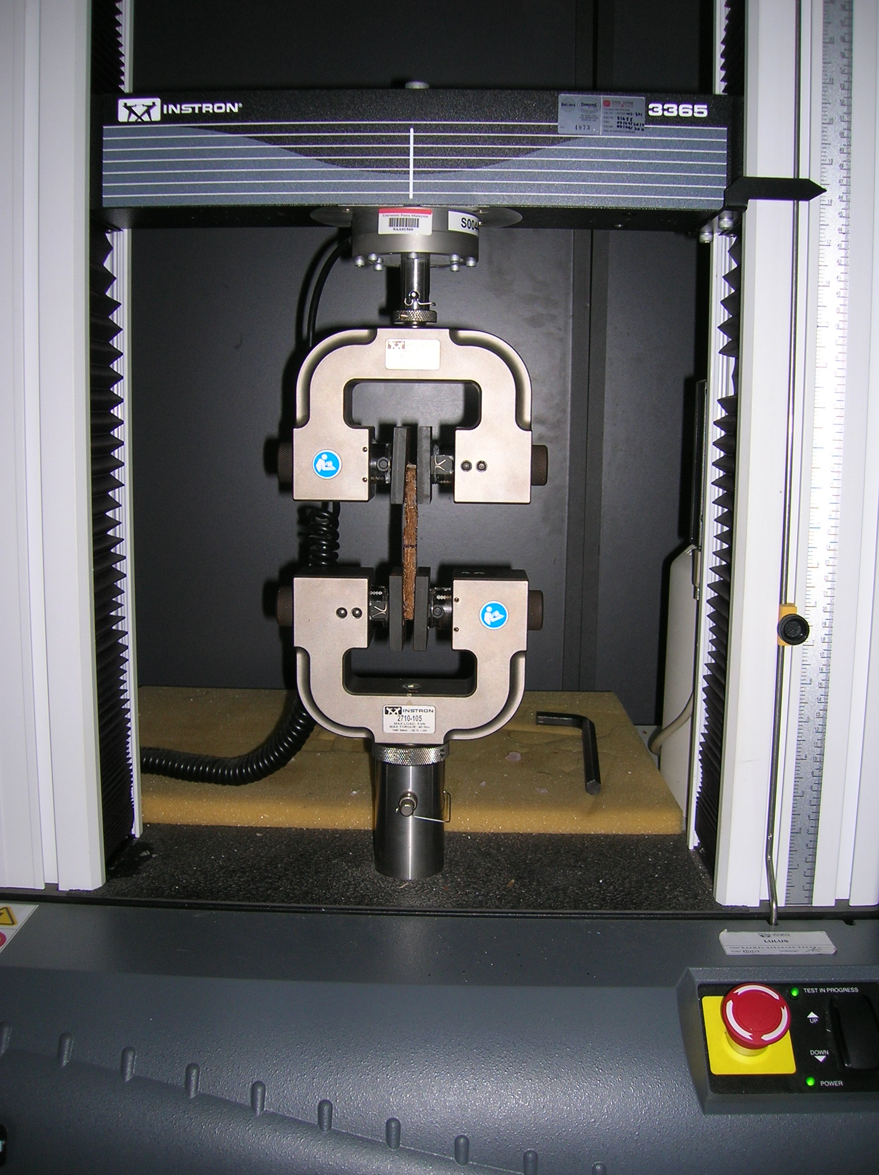 Tensile testing on a coir composite. Specimen size is not to standard. Not seen here are emery cloths placed between specimen and grip surface with grit surface of cloth facing specimen. Emery cloth with 100 grit was used. Slip occurred in upper jaw.